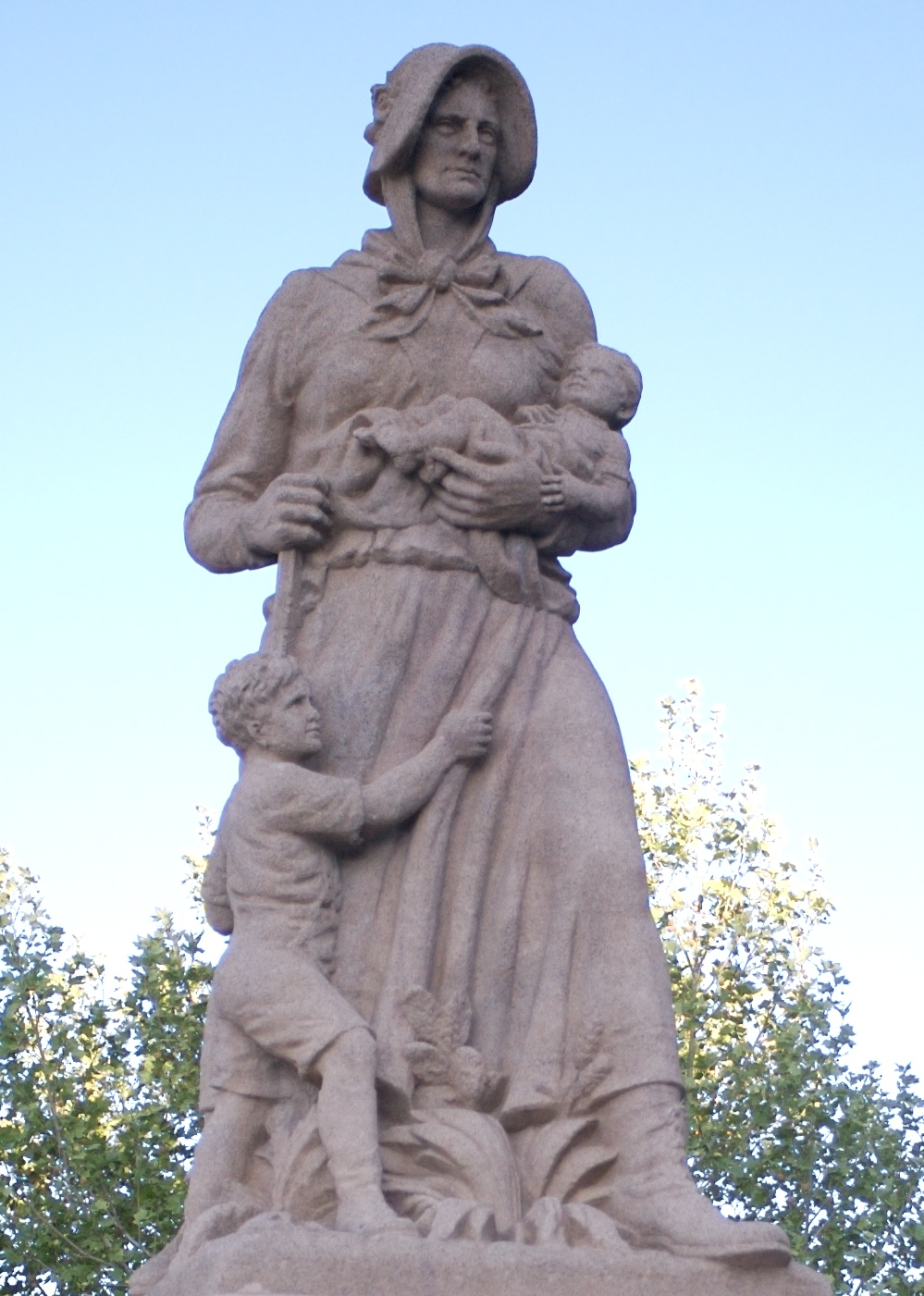 Detail of the Madonna of the Trail statue in Albuquerque, New Mexico.